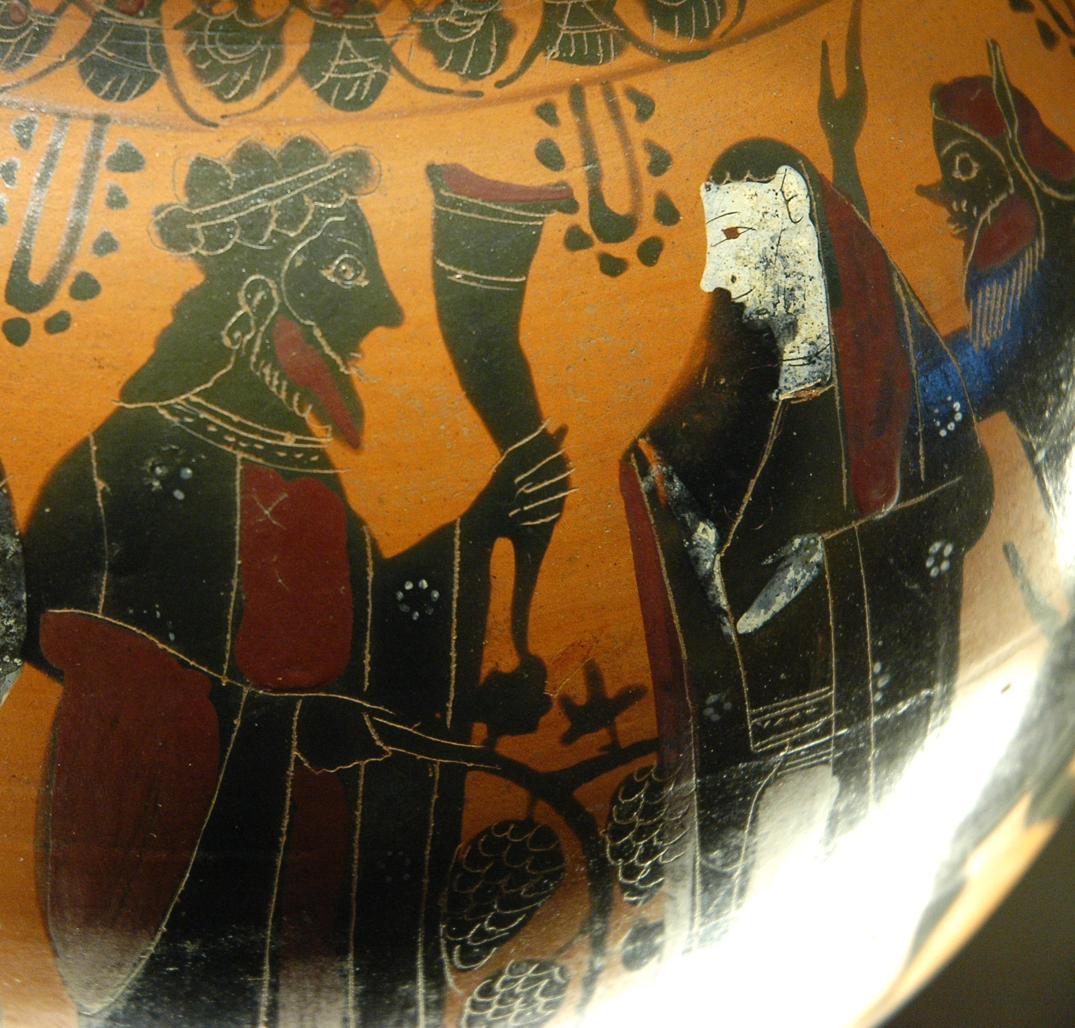 Dionysos and Ariadne. Detail of an Attic black-figure amphora, ca. 540 BC–530 BC.